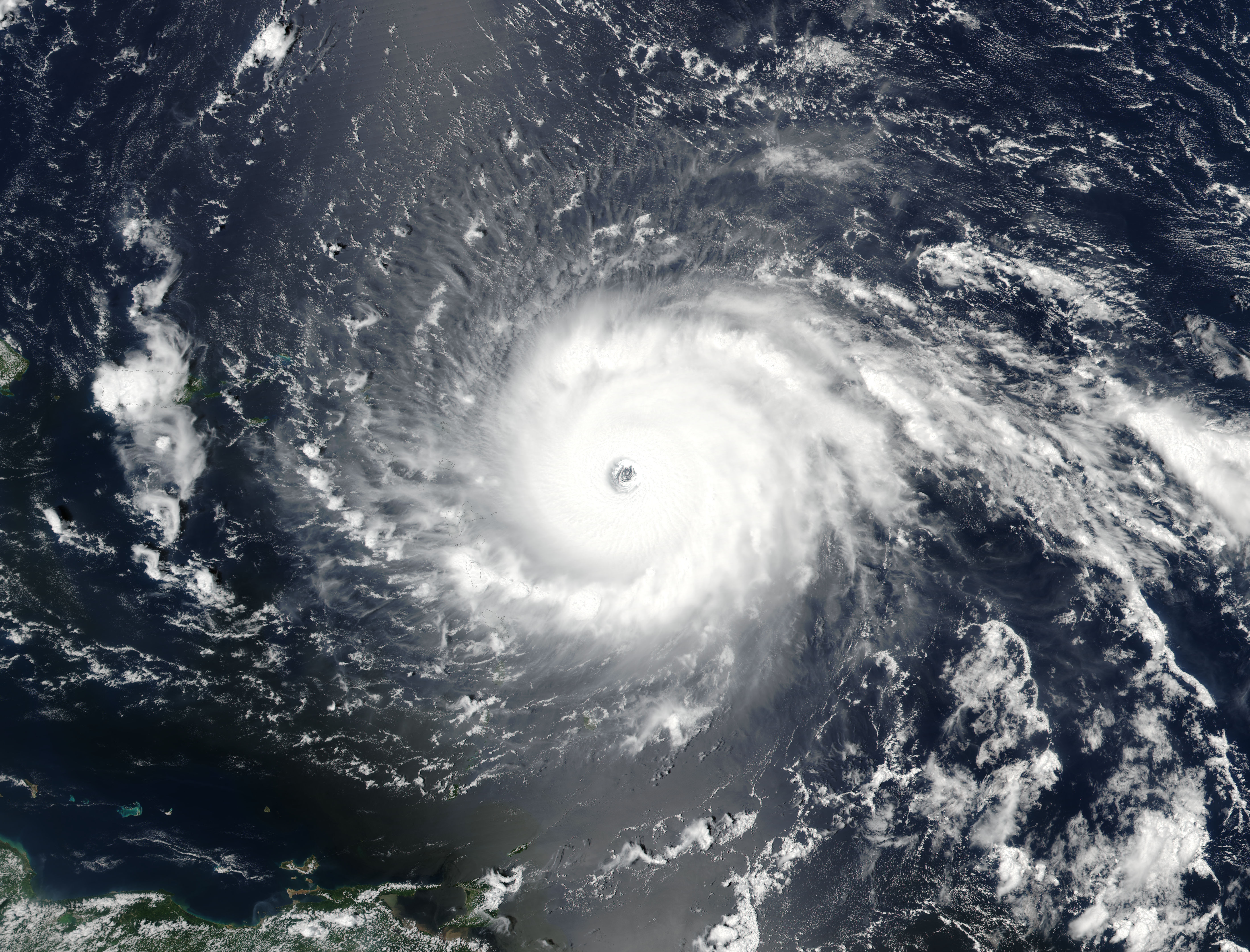 Hurricane Irma (11L) approaching the Leeward Islands